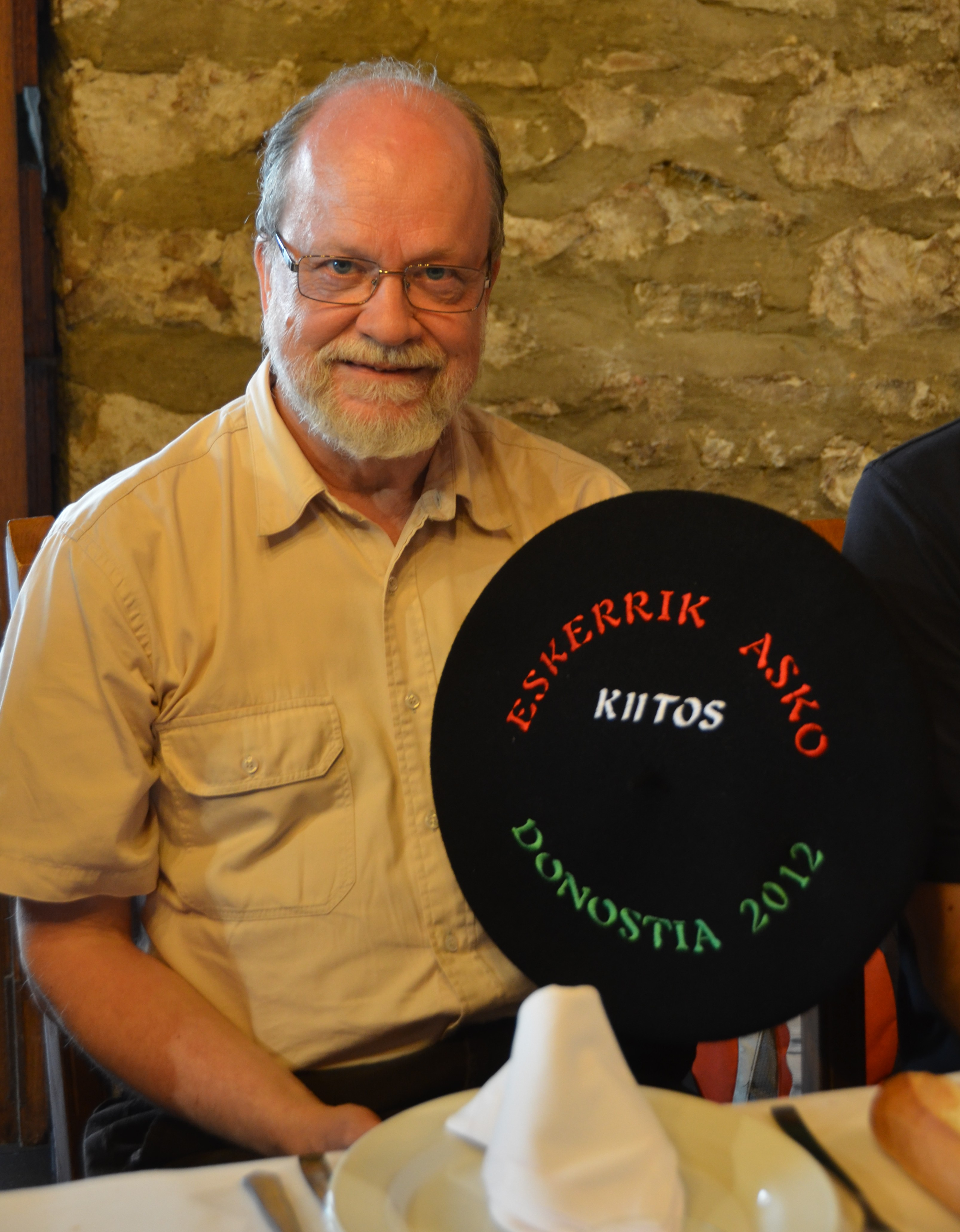 Kimmo Koskeniemmi computational linguist. FSMNLP 2012 in Donostia